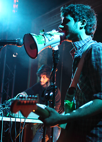 Railcars performing at Fleche d'Or in Paris, France